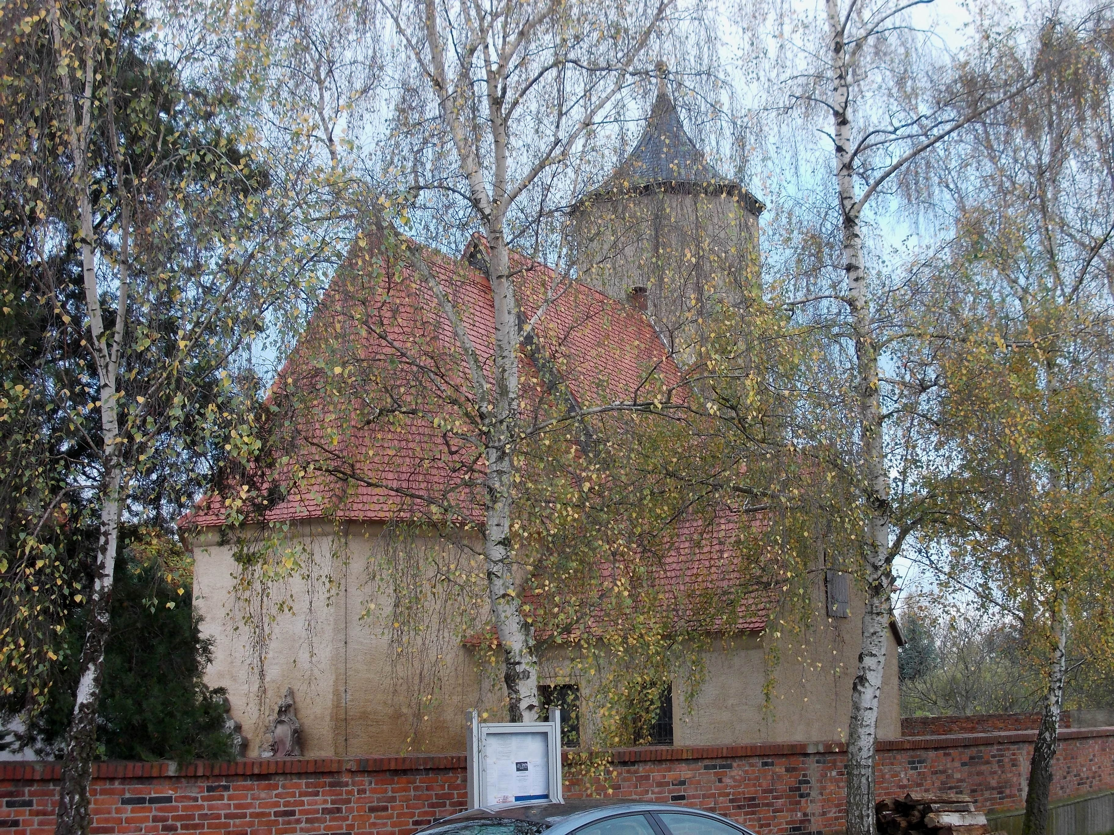 Lössen church (Schkopau, district: Saalekreis, Saxony-Anhalt)